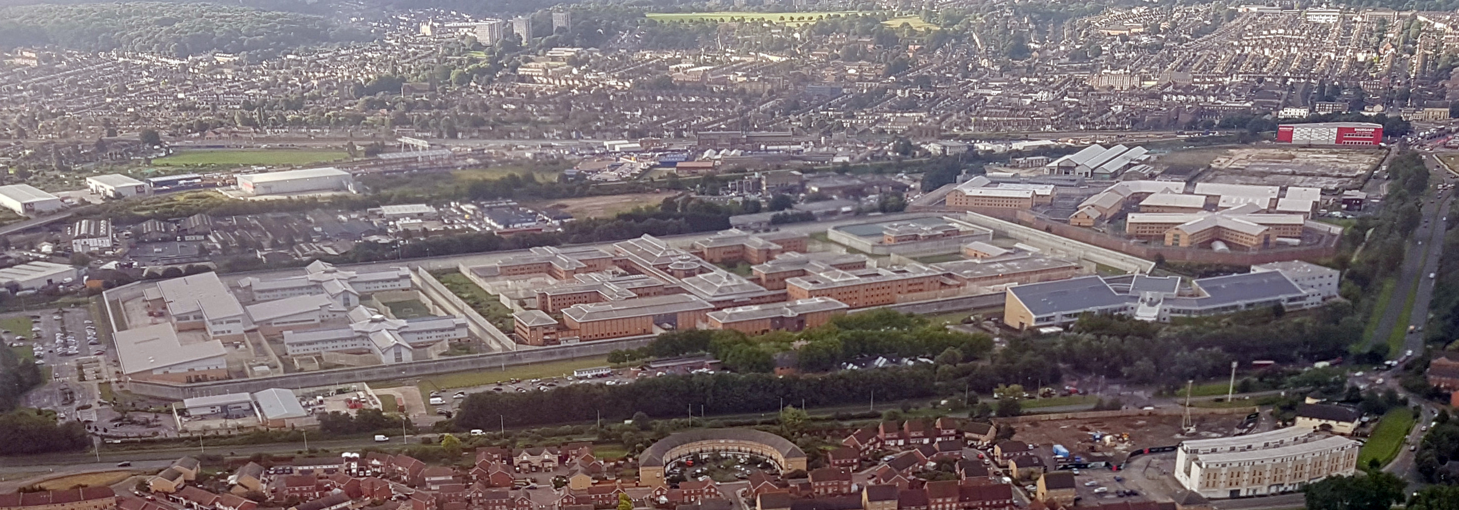 Aerial view of HM Prisons Isis, Belmarsh and Thameside in Thamesmead West.